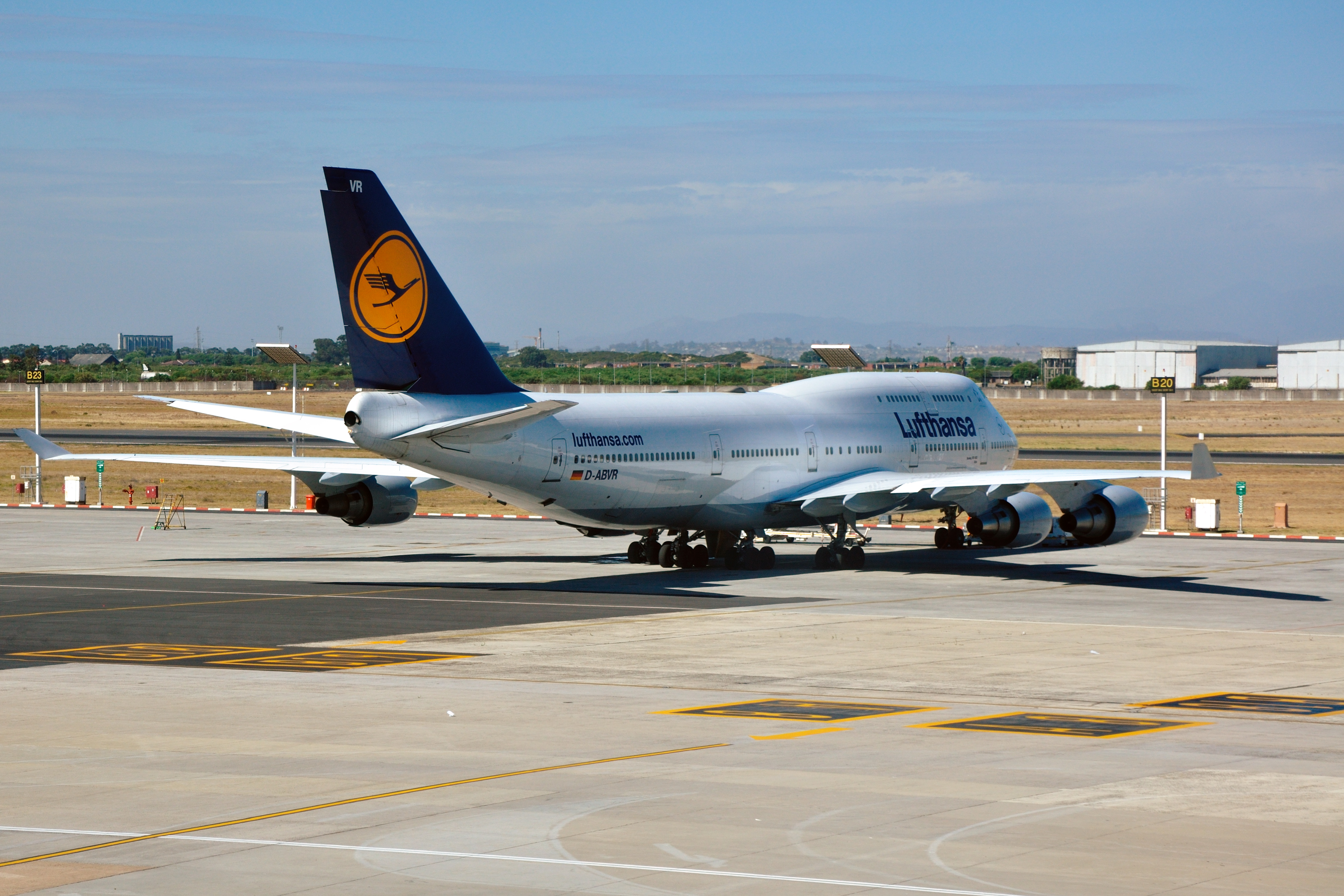 South Africa, spotting at Cape Town International Airport